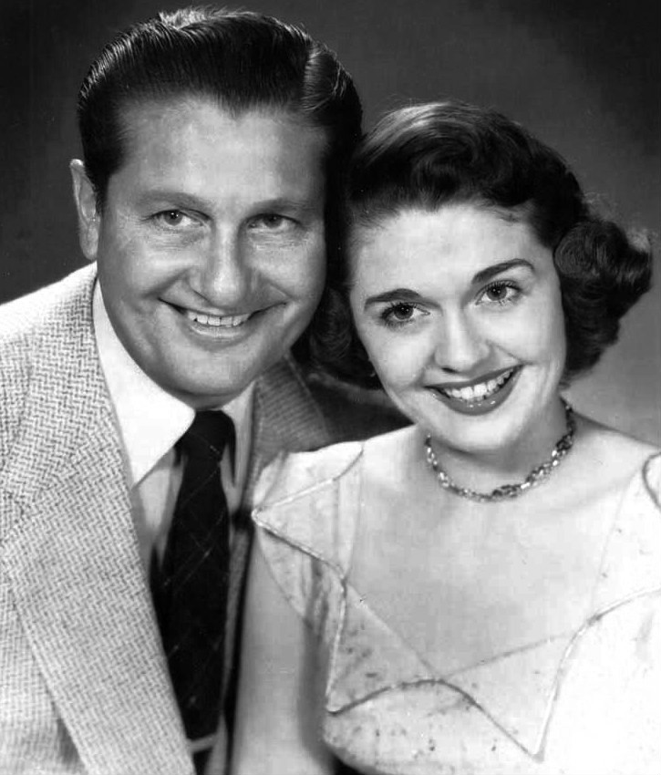 Publicity photo of bandleader Lawrence Welk and singer Alice Lon, who served as Welk's "Champagne Lady" on his television program The Lawrence Welk Show from 1951 to 1959. Lon was fired by Welk for showing what he thought to be too much of her knees on camera.